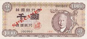 Obverse side of a South Korean note of 1000 hwan